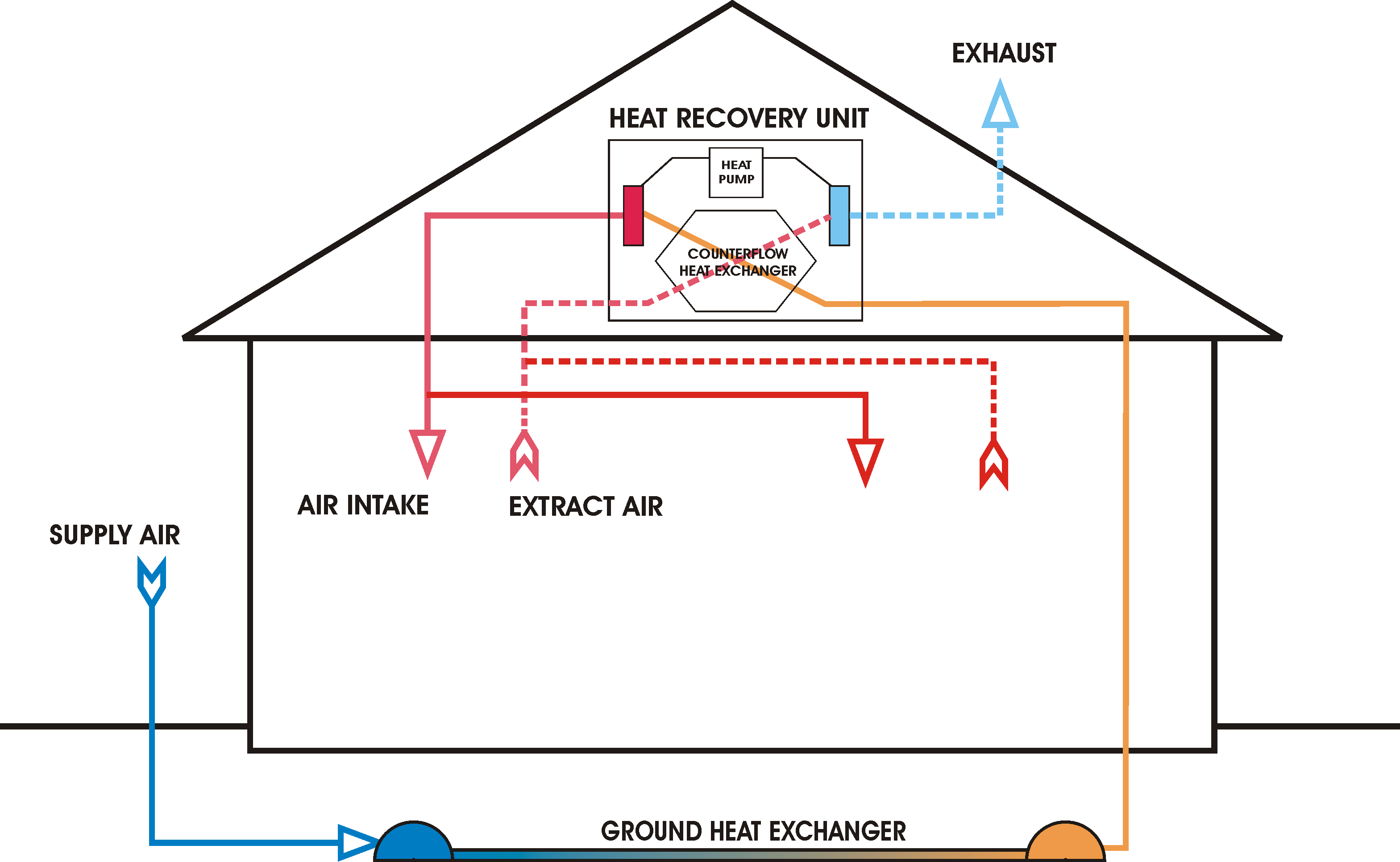 Ventilation unit with heat pump and ground plate heat exchanger